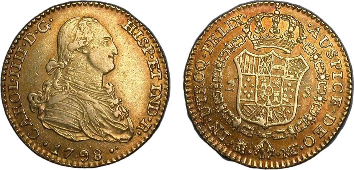 2 escudos en or à l'effigie de Charles IV, 1798